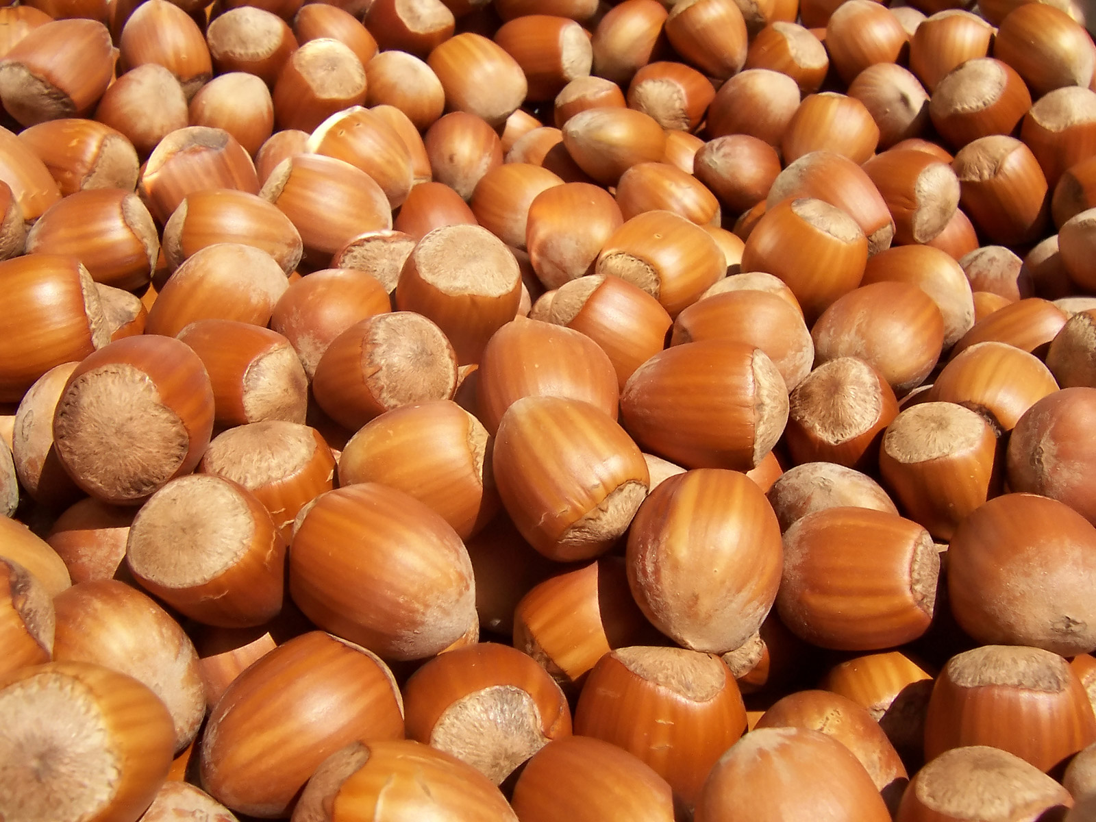 Lots of hazelnuts